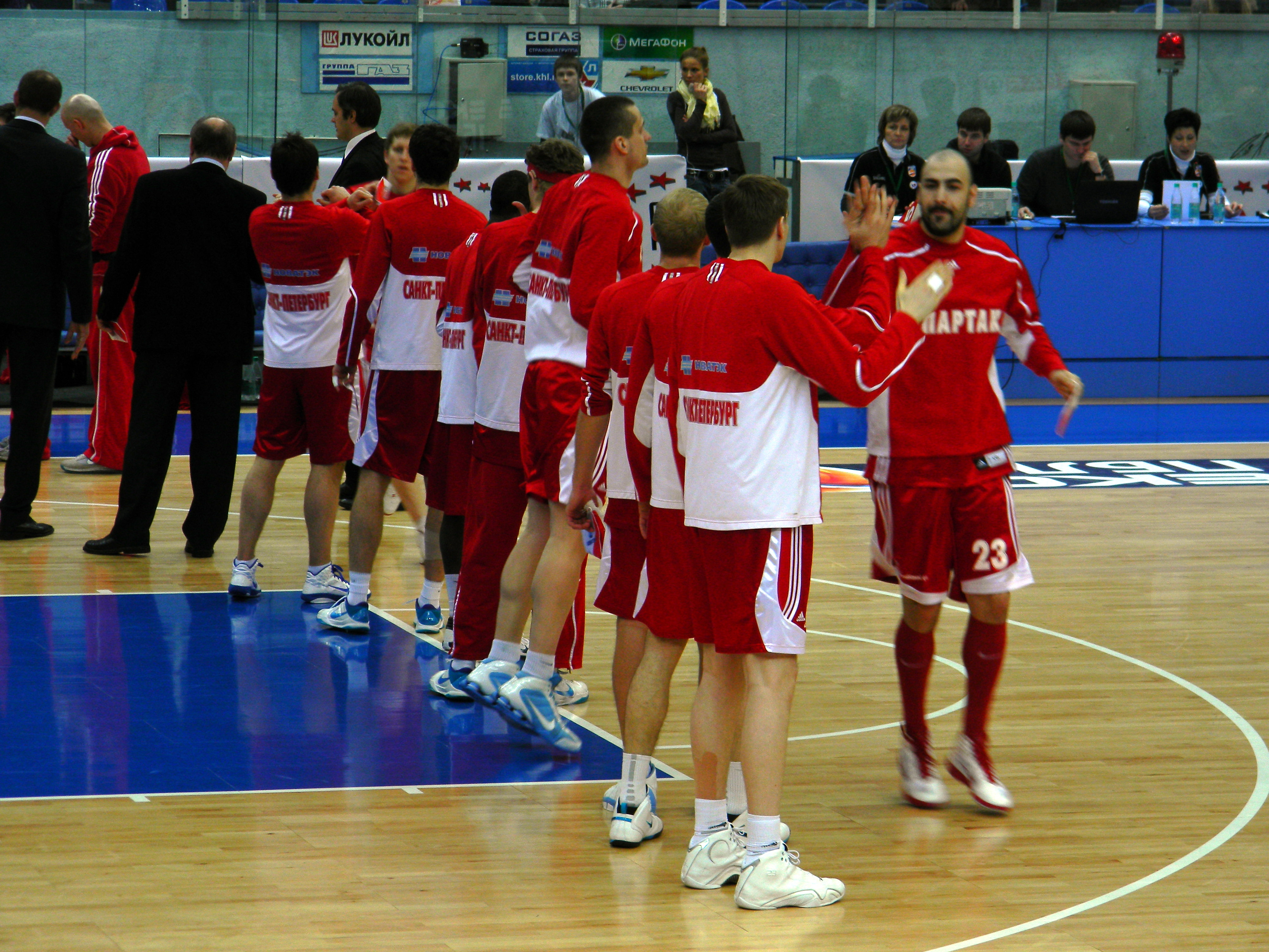 The game of BC Nizhny Novgorod against Spartak Saint-Petersburg on March 19th, 2011